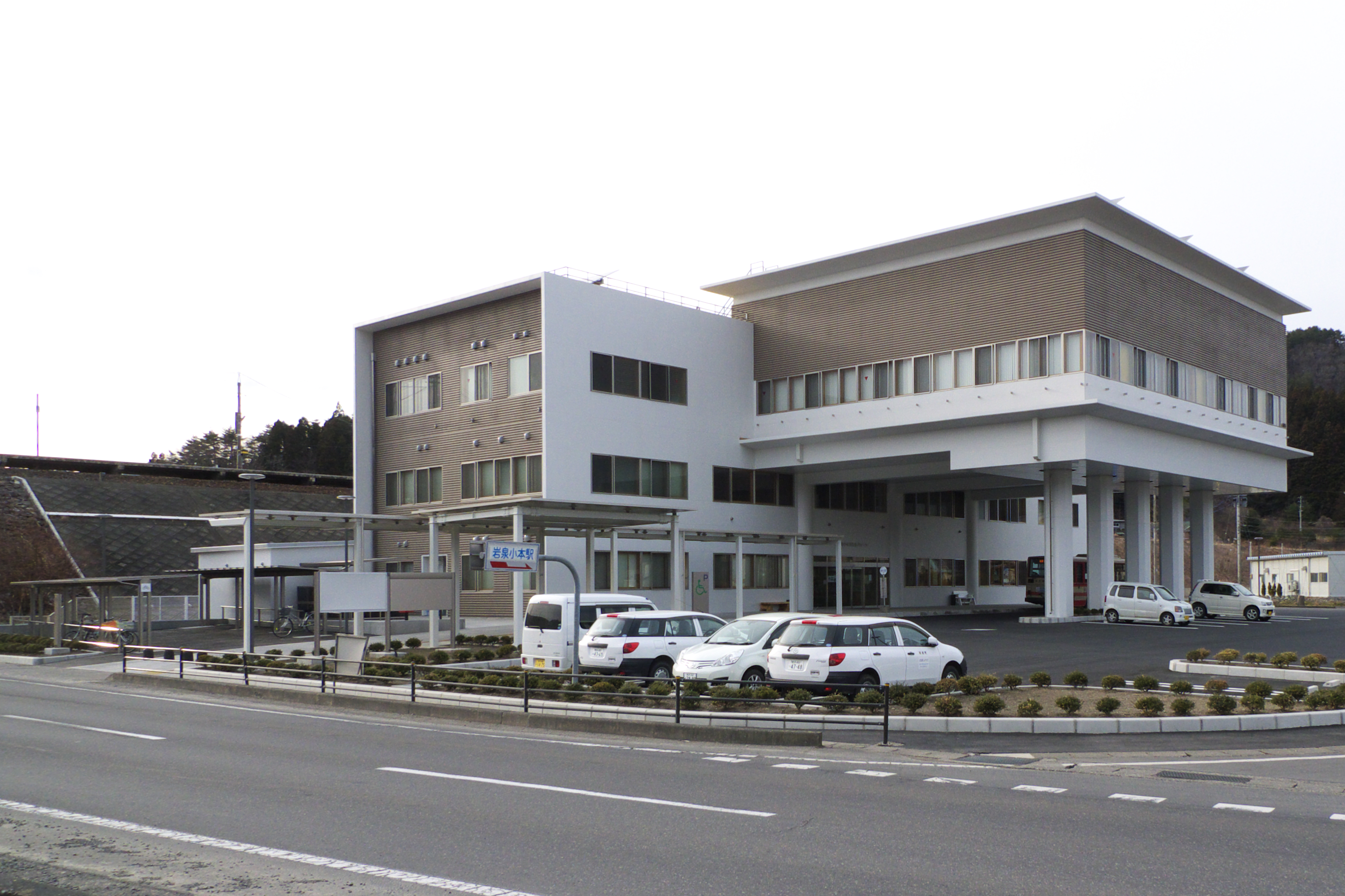 Omoto Tsunami Bosai Centre and Sanriku Railway Iwaizumi Omoto Station in Iwaizumi Town, Iwate Prefecture, Japan